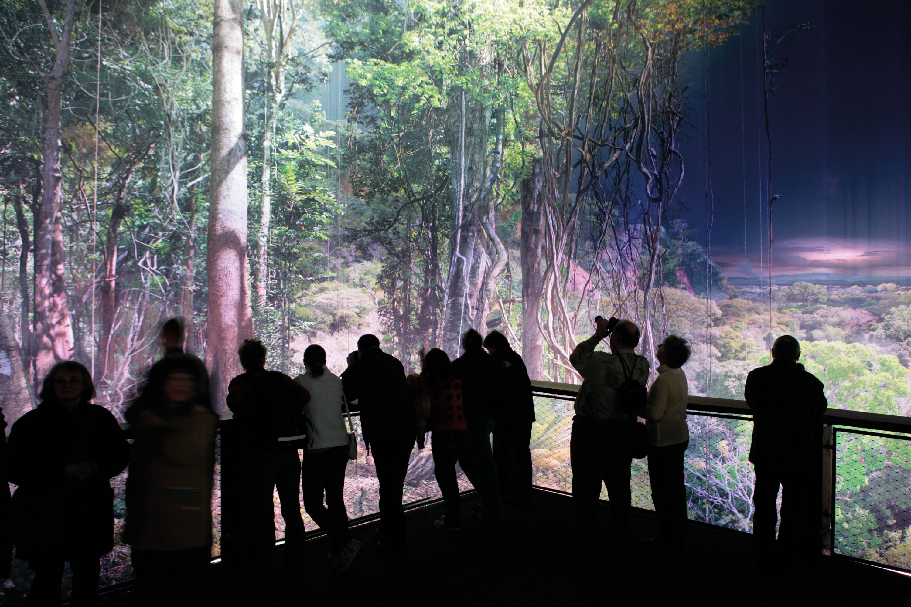 Visitors watching AMAZONIA from the platform (c) asisi